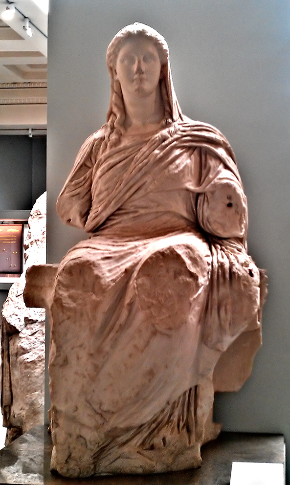 Statue of Demeter seated on a throne; lower arms and hands are missing. The head was carved separately.